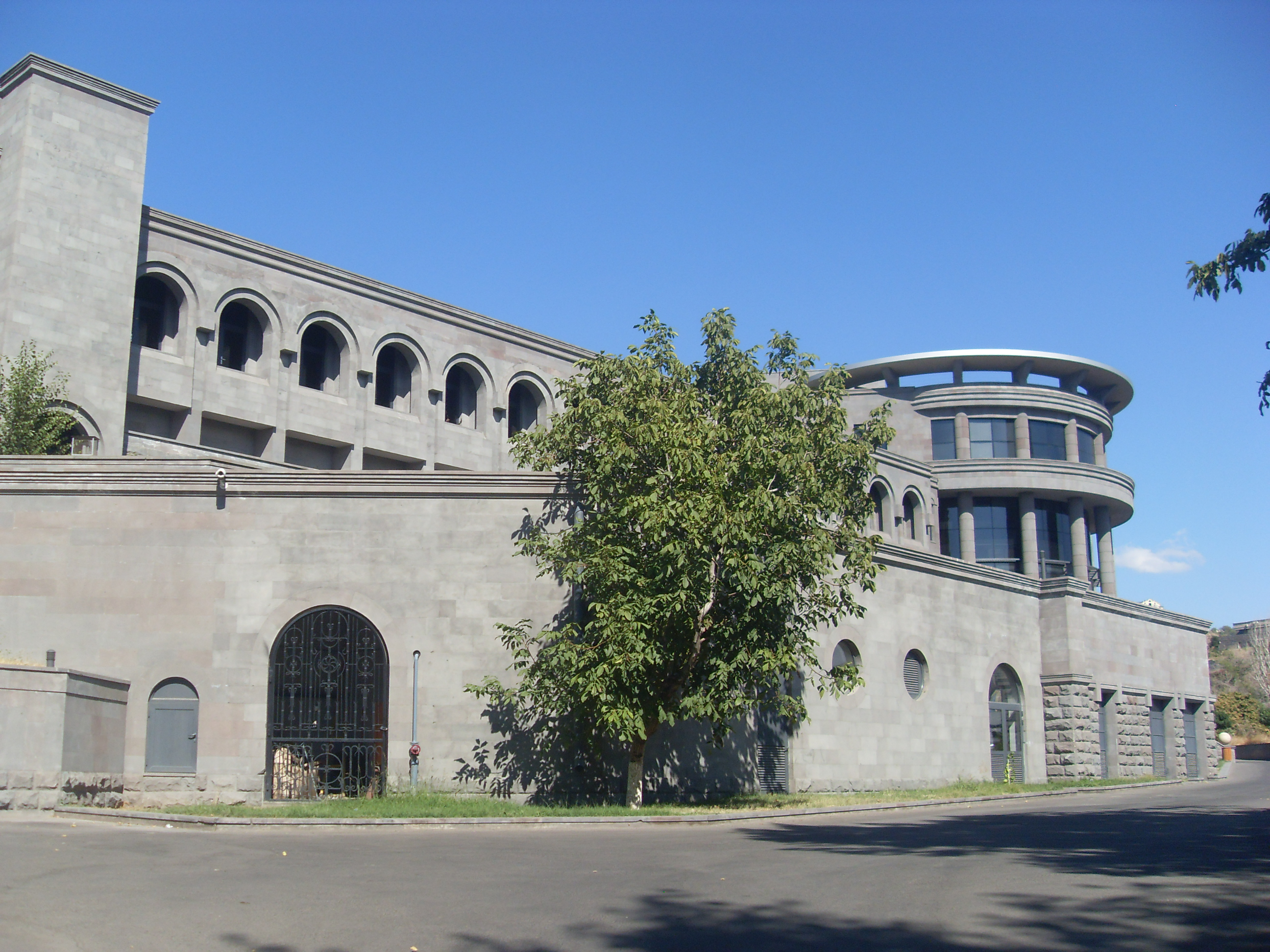 Matenadaran, 2011, architect Arthur Meschian 6/81